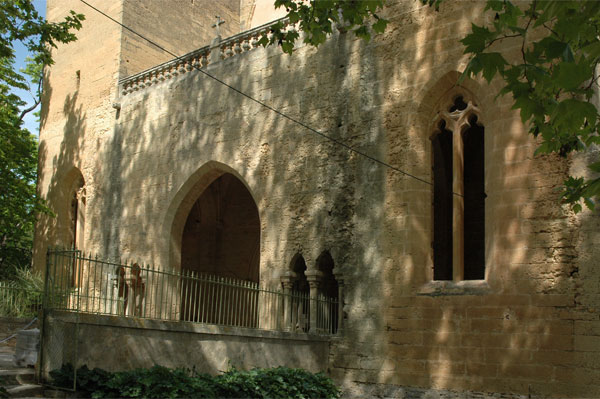 Valmagne abbey. France